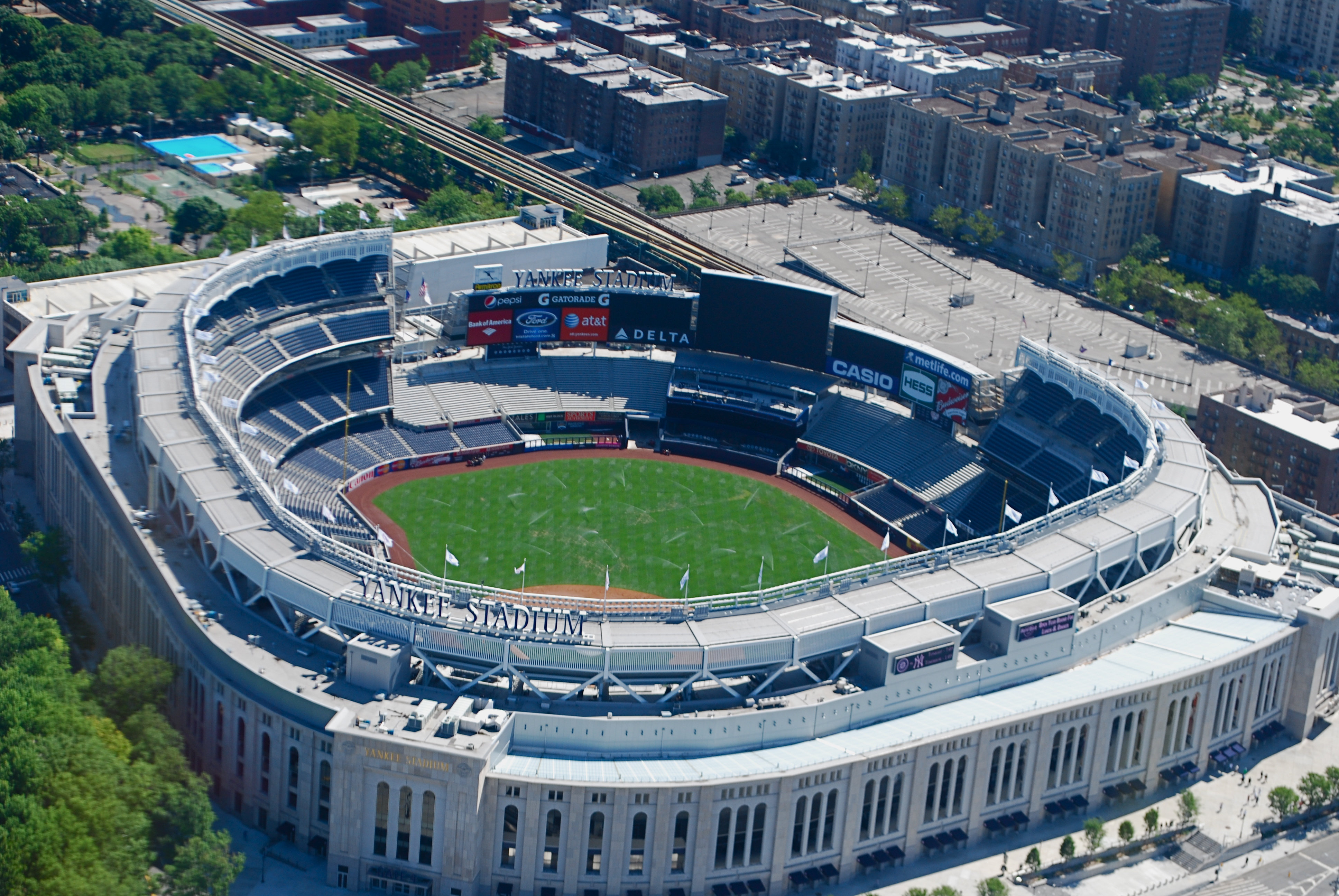 View of Yankee Stadium from the air in 2010